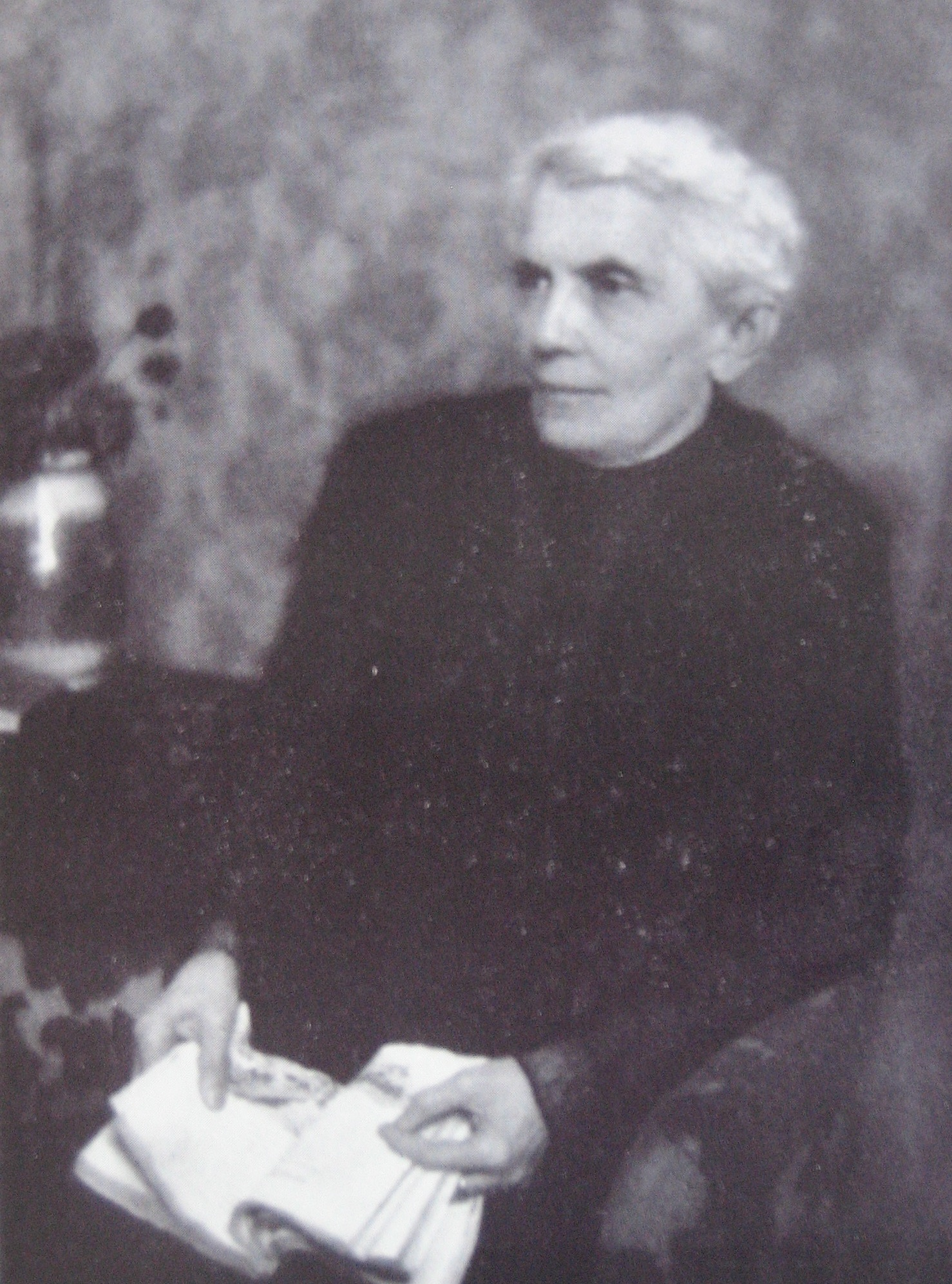 Swiss historian and women's rights activist Meta von Salis.